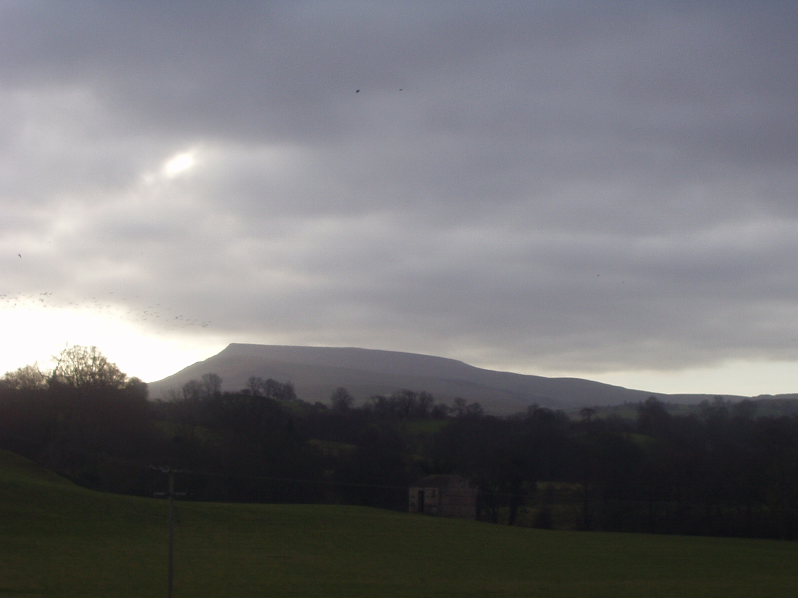 By Gus Stephens